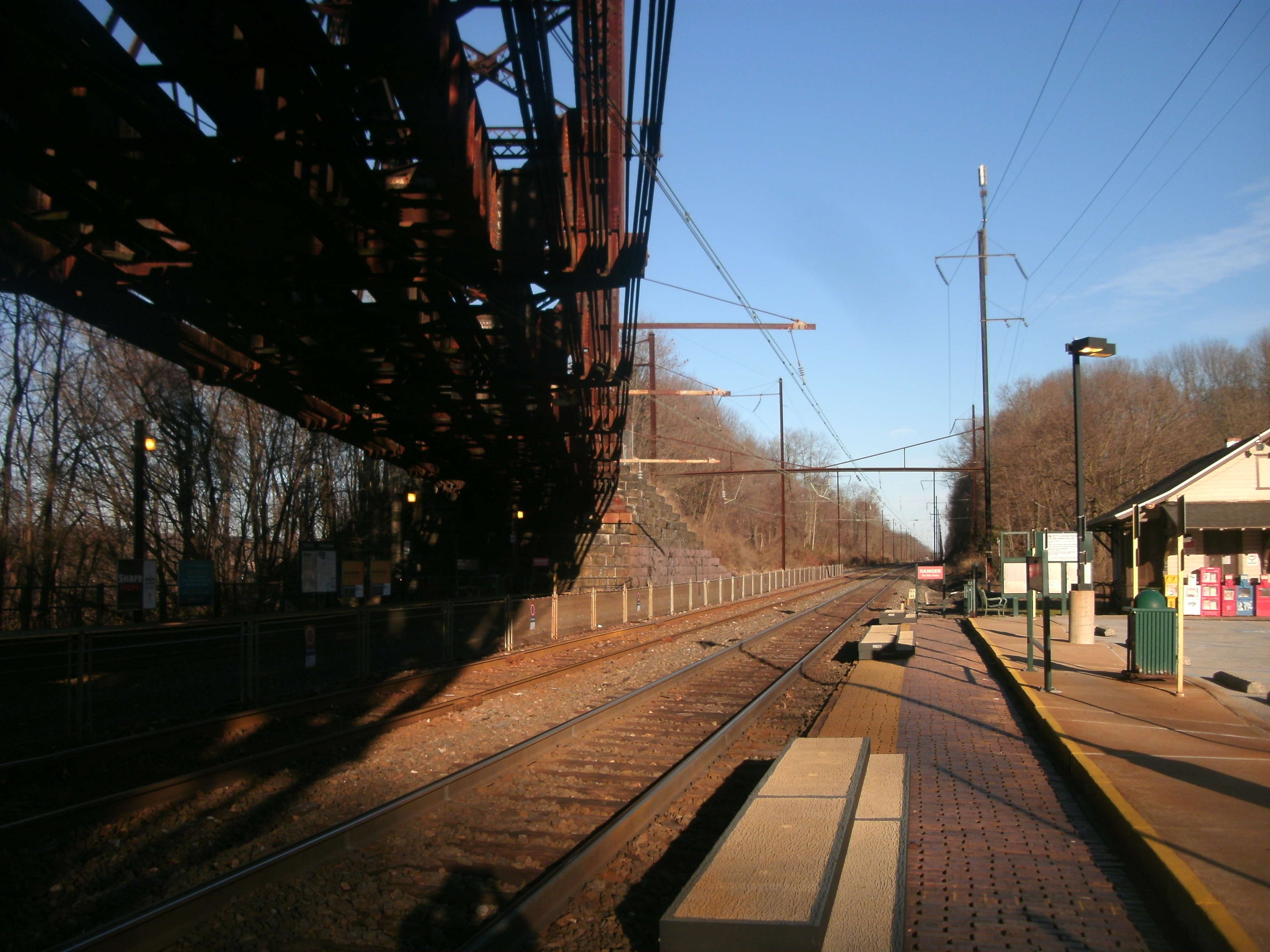 Whitford station viewed from under the former PRR low-grade freight flyover